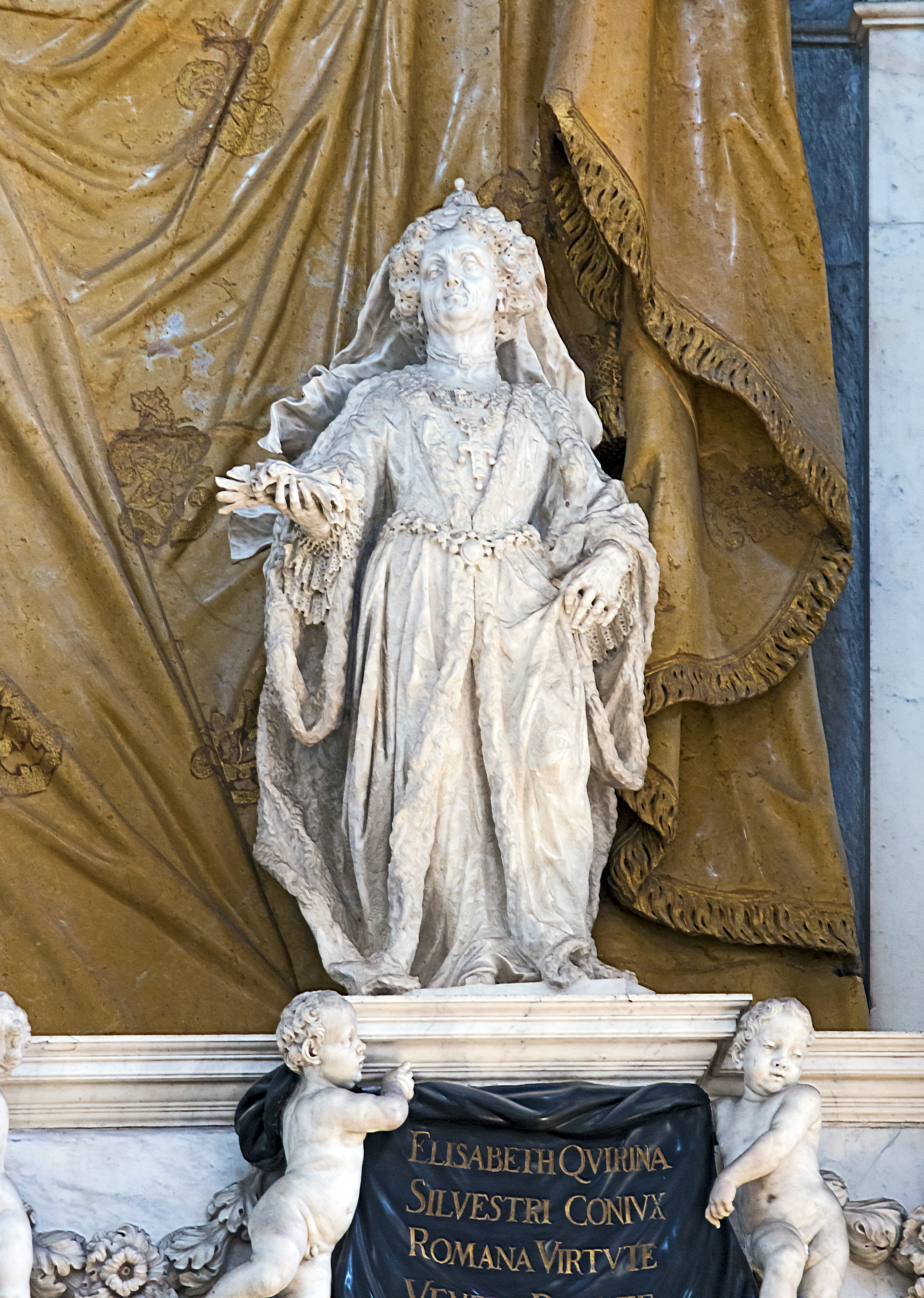 Santi Giovanni e Paolo in Venice, monument of the Valier family : Elisabetta Querini by Giovanni Bonazza.